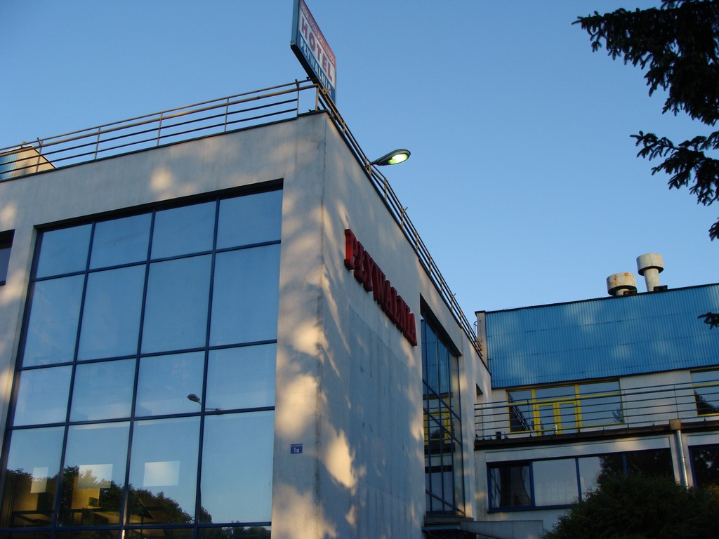 Śrem, sport's centre.